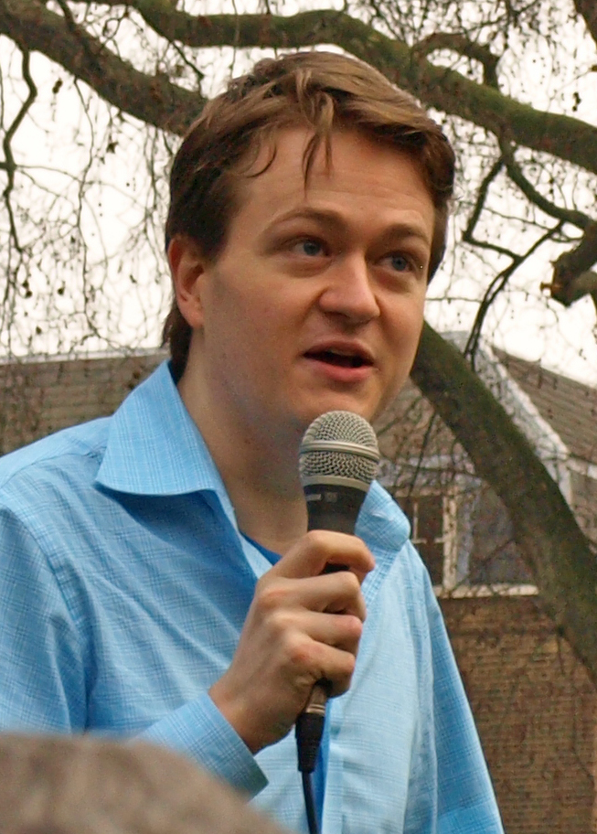 Johann Hari at a UK Uncut protest in Soho Square, London.